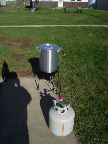 Shown here is a Turkey fryer. The fryer is hooked up to a propane tank which provides the fuel for the tank. About 3 gallons of peanut oil or soybean oil is used to deep fry a turkey. JesseG 03:33, Nov 26, 2004 (UTC)